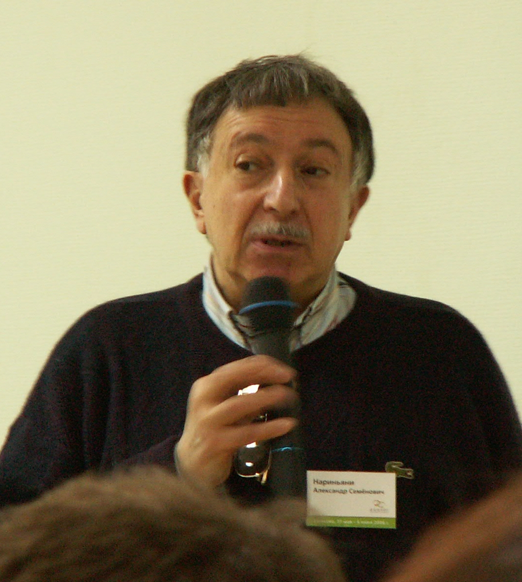 Alexander Nariniani, Russian scientist